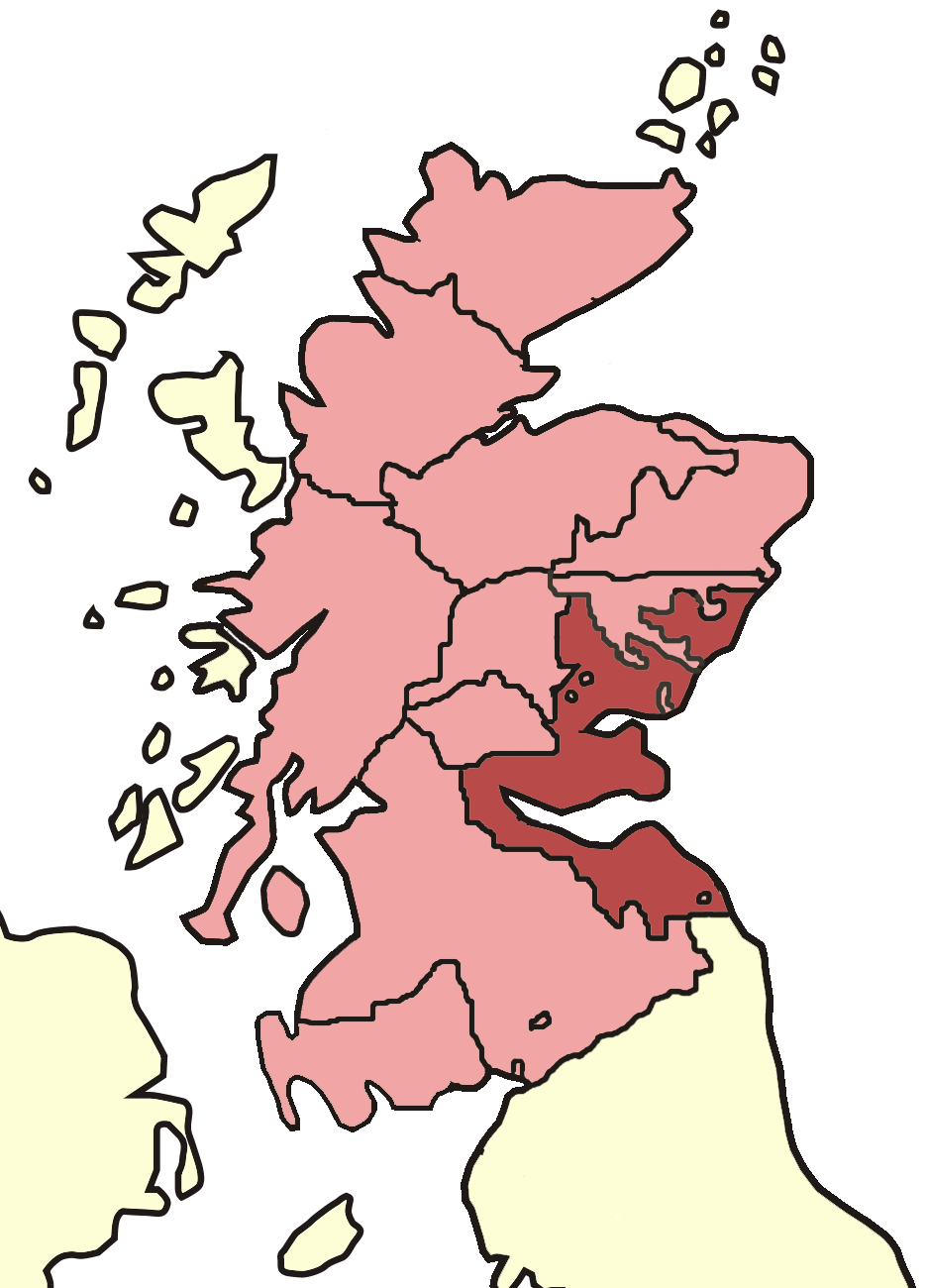 Diocese of Scotland in the reign of king David I. Based on William Forbes Skene's map of 1887.